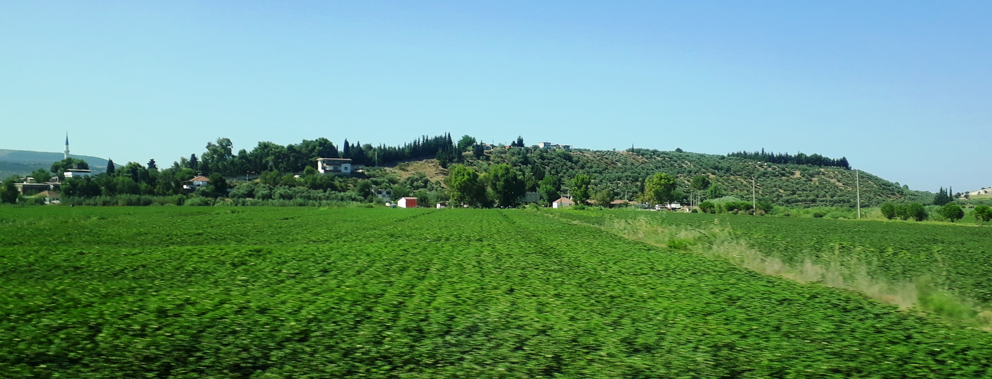 Hill (former island) of Lade near Miletus